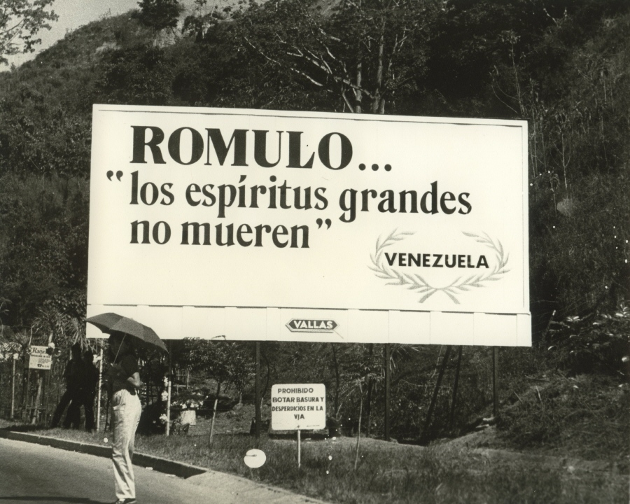 Advertising allusive to Rómulo Betancourt, 1981.